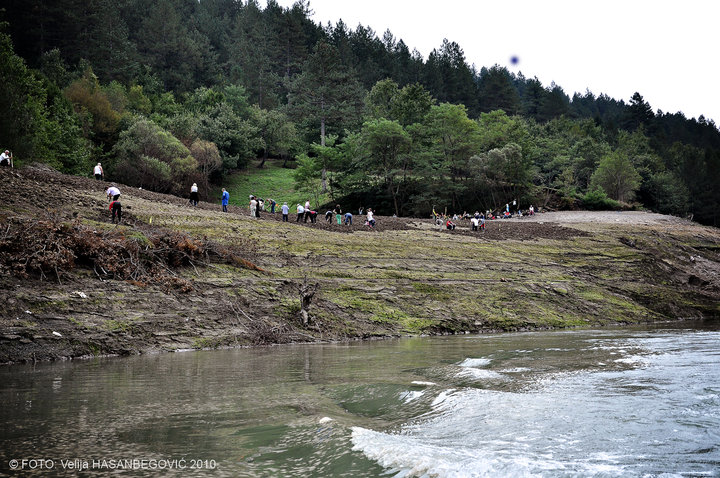 Volunteers assist Bosnian Institute for Missing Persons investigations at Lake Perucac (Bosnia/Serbia border) on 19-10-2010. The lowered level of the reservoir behind the Bajina Basta dam had revealed remains of bodies disposed of in the River Drina during the 1992 Visegrad massacres when Bosnian Serb forces eliminated the majority Bosniak population of Visegrad - because of the imminent refilling of the reservoir there was very little time available to conduct a proper search of the "largest mass grave in Europe". A large number of volunteers travelled to the isolated location to assist the staff of the Institute. Velija Hasanbegovic, himself a survivor of the massacres, documented the work of the investigators as they recovered complete skeletal remains and dispersed bones for DNA-assisted identification and proper burial.